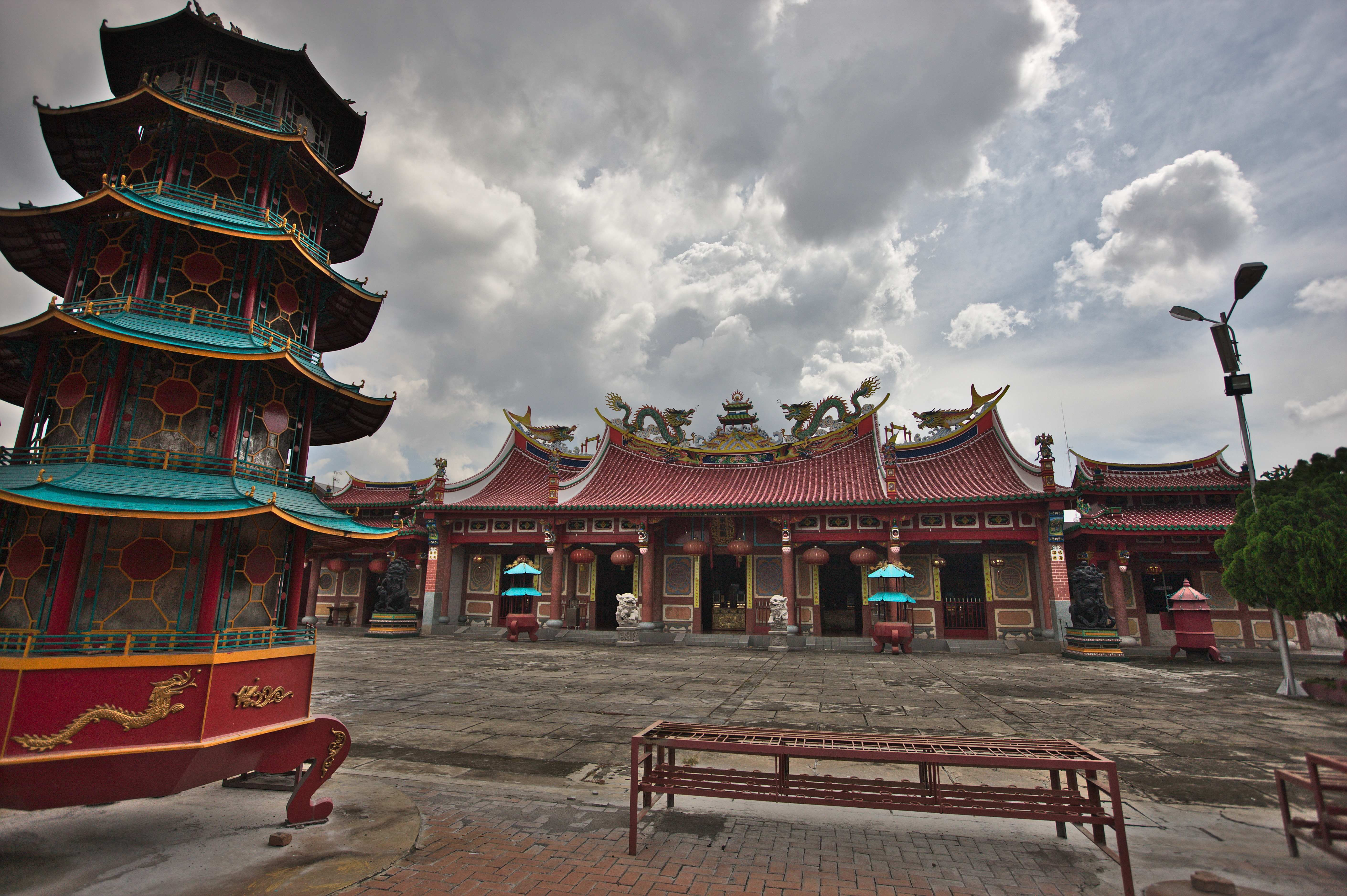 View toward the main hall with incense burner at left. Chinese Temple of Vihara Gunung Timur, Medan, North Sumatra, Sumatra, Indonesia.